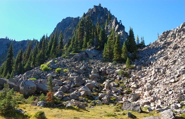 Lemei Rock: the highest peak in the Indian Heaven Wilderness, stands at 5,925 ft (1,806 m), followed by the second highest Bird Mountain, and the third highest Sawtooth Mountain.